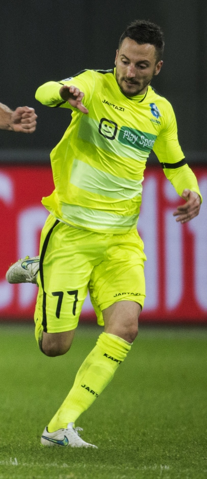 Danijel Milićević